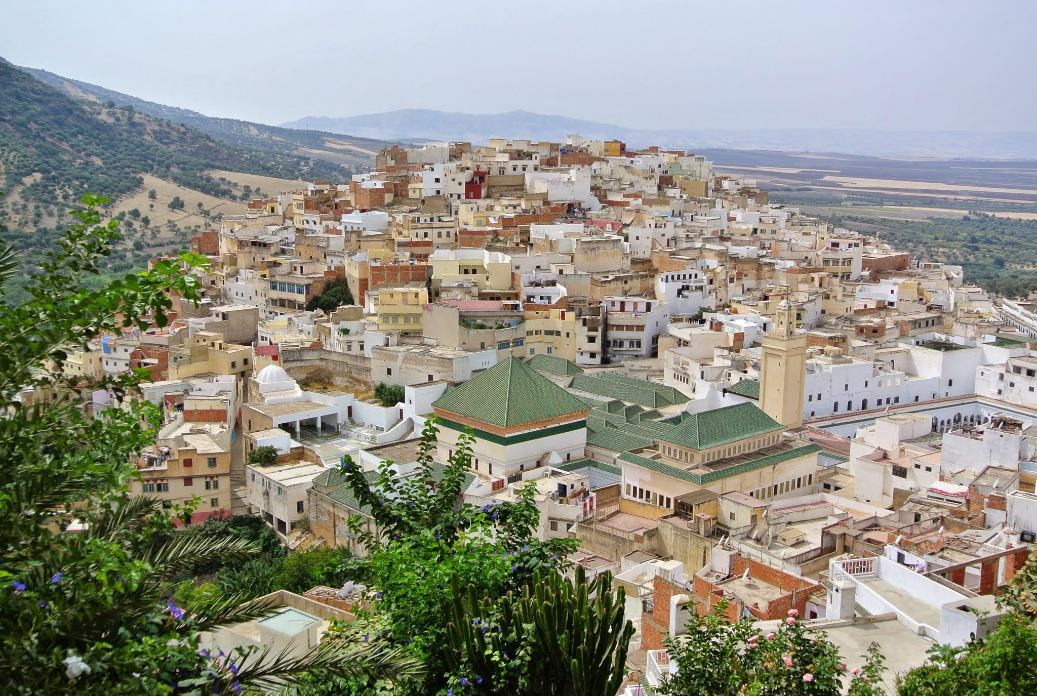 Moulay Idriss Zerhoun, Morocco